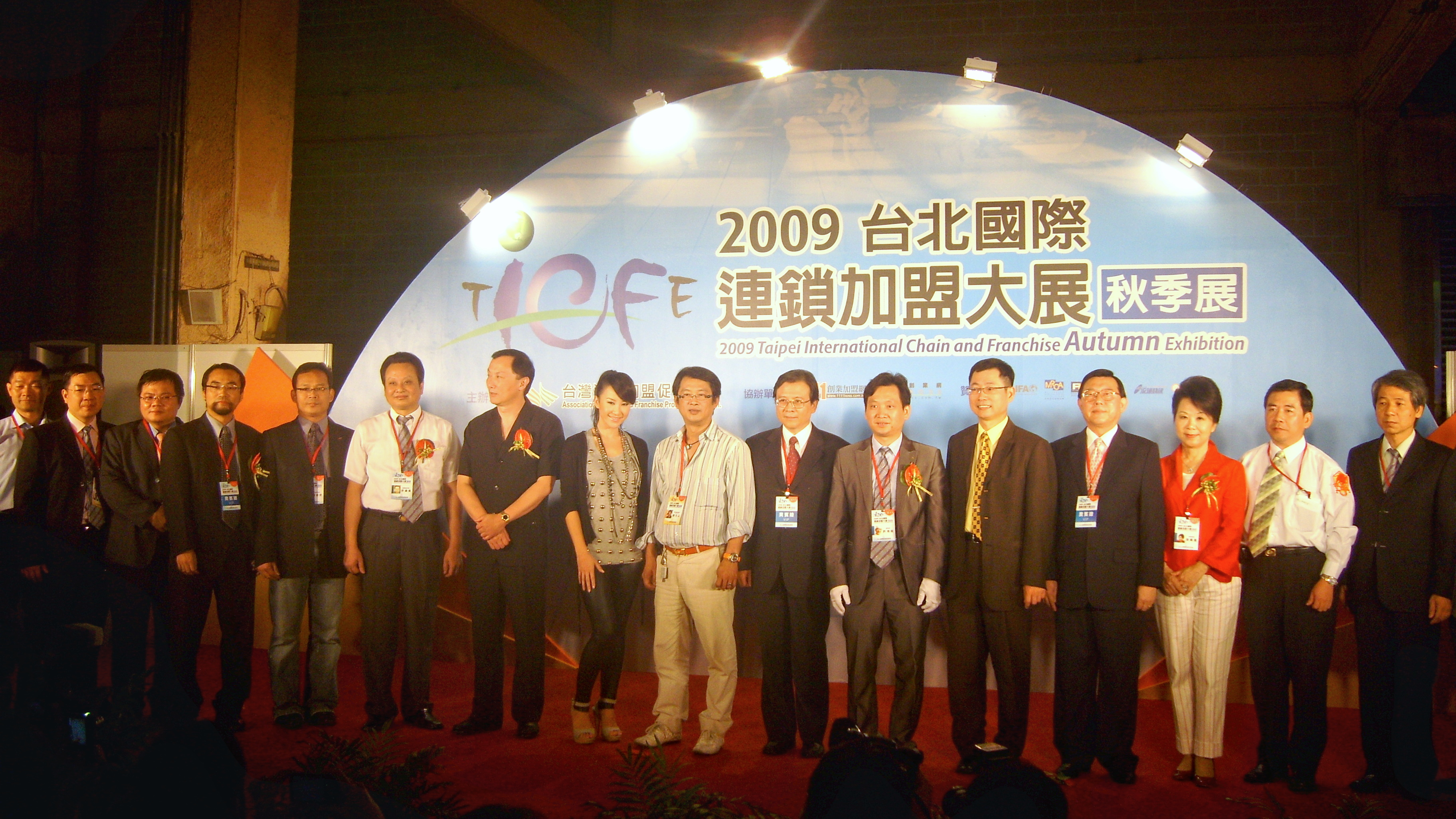 Opening Ceremony of 2009 Taipei International Chain and Franchise Autumn Exhibition.